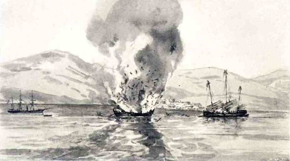 Fight with piratical junks in Mirs Bay in 1858.